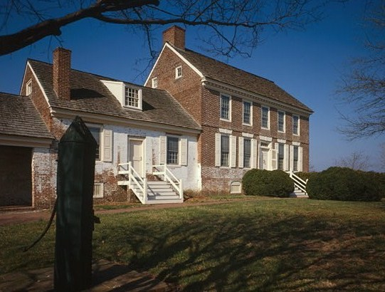 John Dickinson Mansion, Kitts Hummock Road, off State Road 68, 0.3 mile east of intersection with State Route 113, (Kent County , Delaware) :*Image courtesy of the Historic American Building Survey—HABS archives (1982; cropped).